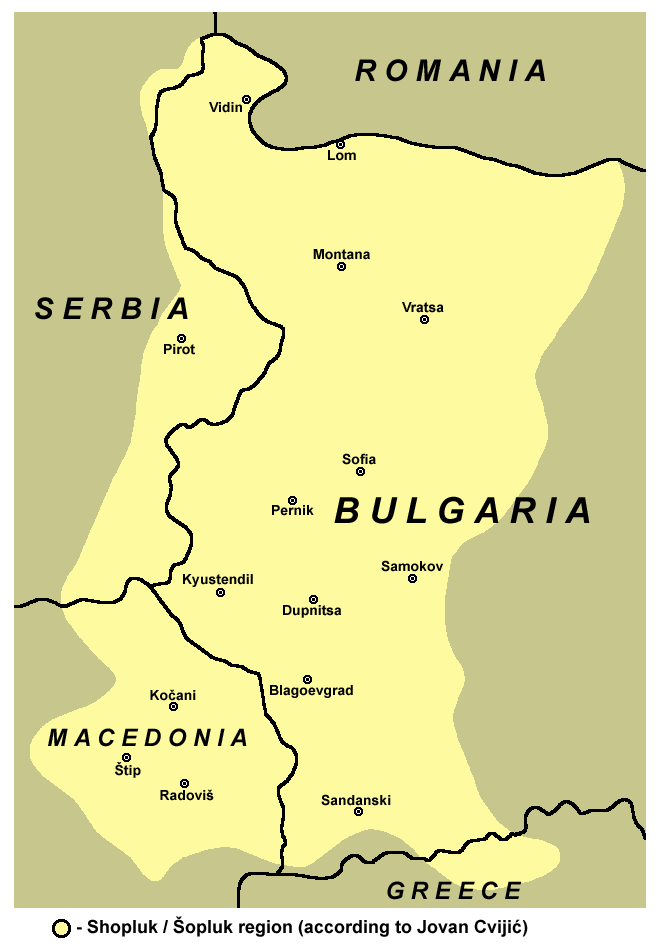 Map of Shopluk / Šopluk region in Bulgaria, Macedonia and Serbia (according to Jovan Cvijić).Serbian: Мапа региона Шоплук у Бугарској, Македонији и Србији (према Јовану Цвијићу).